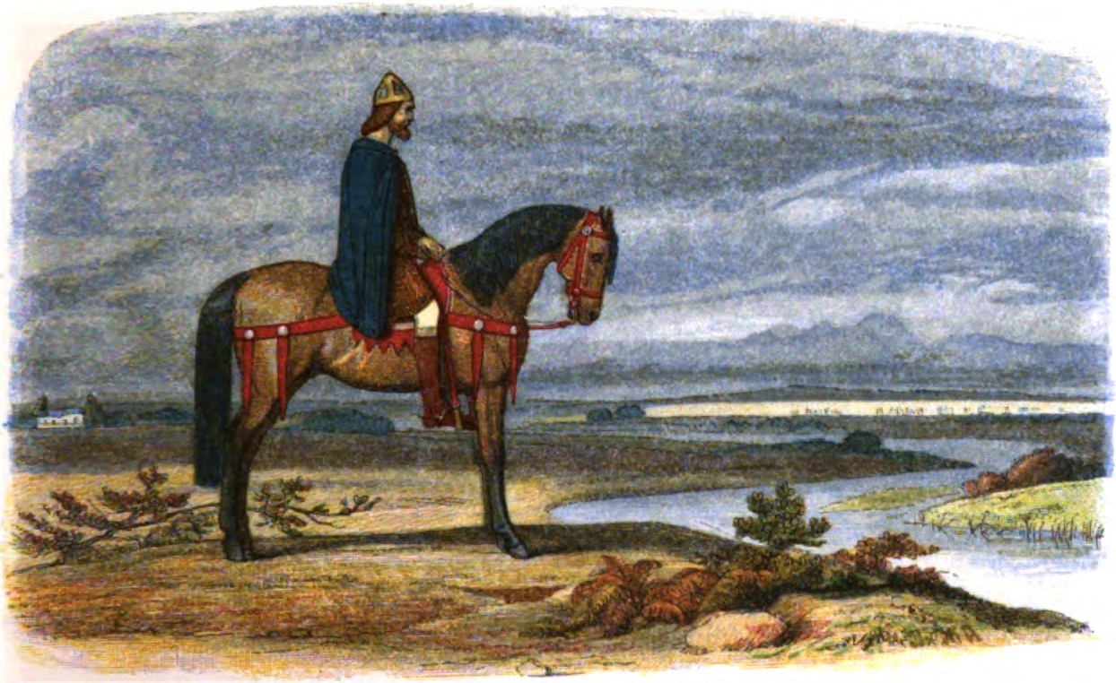 Alfred the Great plots the capture of the Danish fleet.